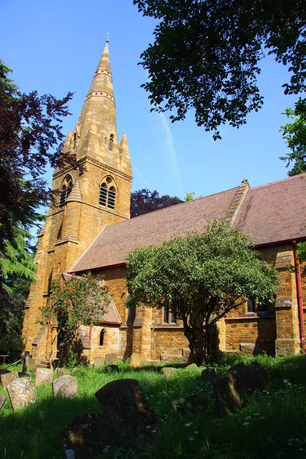 St John the Baptist church in Avon Dassett, near to Avon Dassett, Warwickshire, Great Britain.